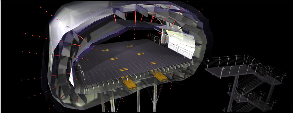 Illustration of Responsive Architecture: A building that can change shape in response to the environment, by Tristan d'Estree Sterk at The Office for Robotic Architectural Media & The Bureau for Responsive Architecture